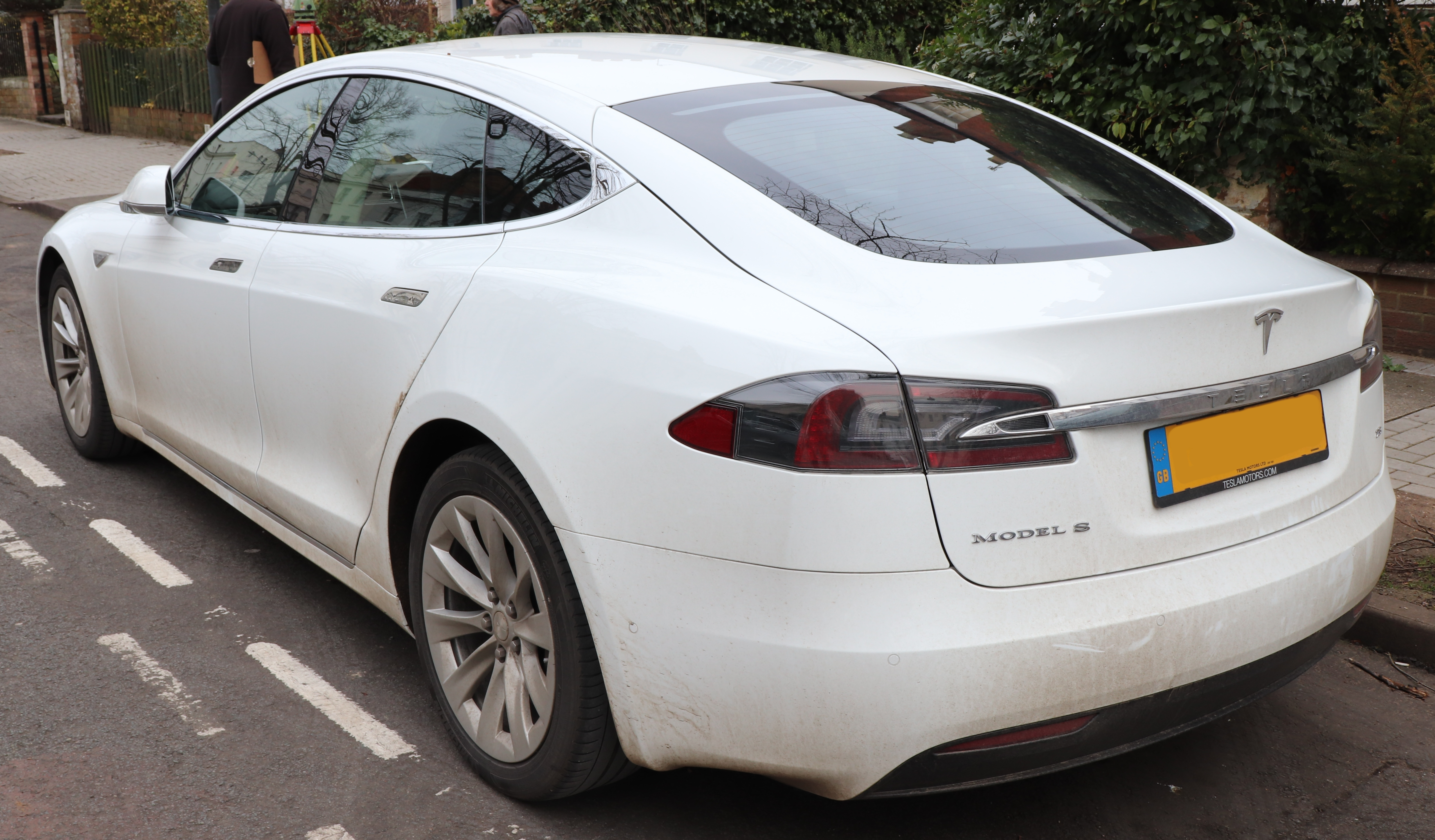 2016 Tesla Model S 75 Front Taken in Leamington Spa